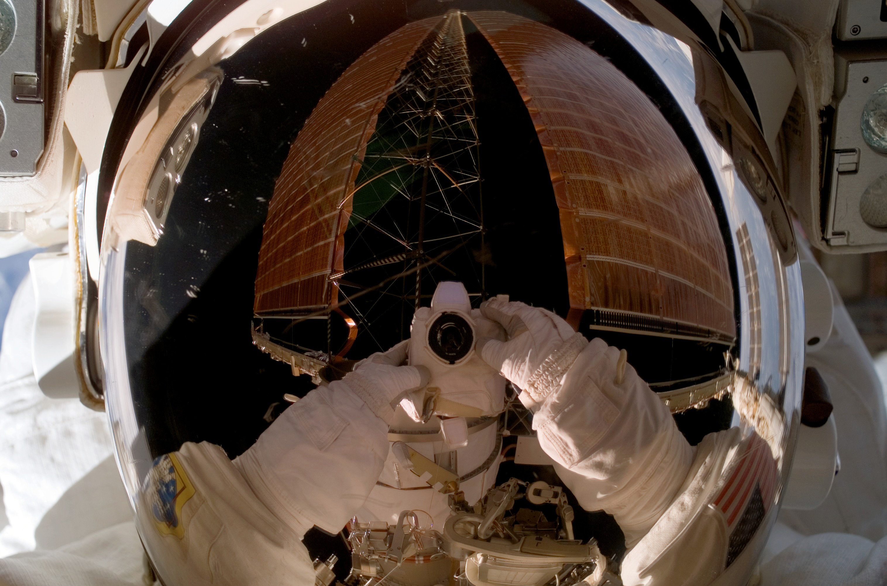 Expedition 14 flight engineer Suni Williams uses a digital still camera to expose a photo of her helmet visor during a February 2007 spacewalk. Also visible in the reflections in the visor is a solar array wing. During the spacewalk, Williams and mission commander Michael Lopez-Alegria reconfigured the second of two cooling loops for the Destiny laboratory module, secured the aft radiator of the P6 truss after retraction and prepared the obsolete Early Ammonia Servicer for removal this summer. During her stay aboard the space station, Williams set a new record for the longest duration spaceflight by a woman, surpassing Shannon Lucid's mark of 188 days, 4 hours set in 1996.